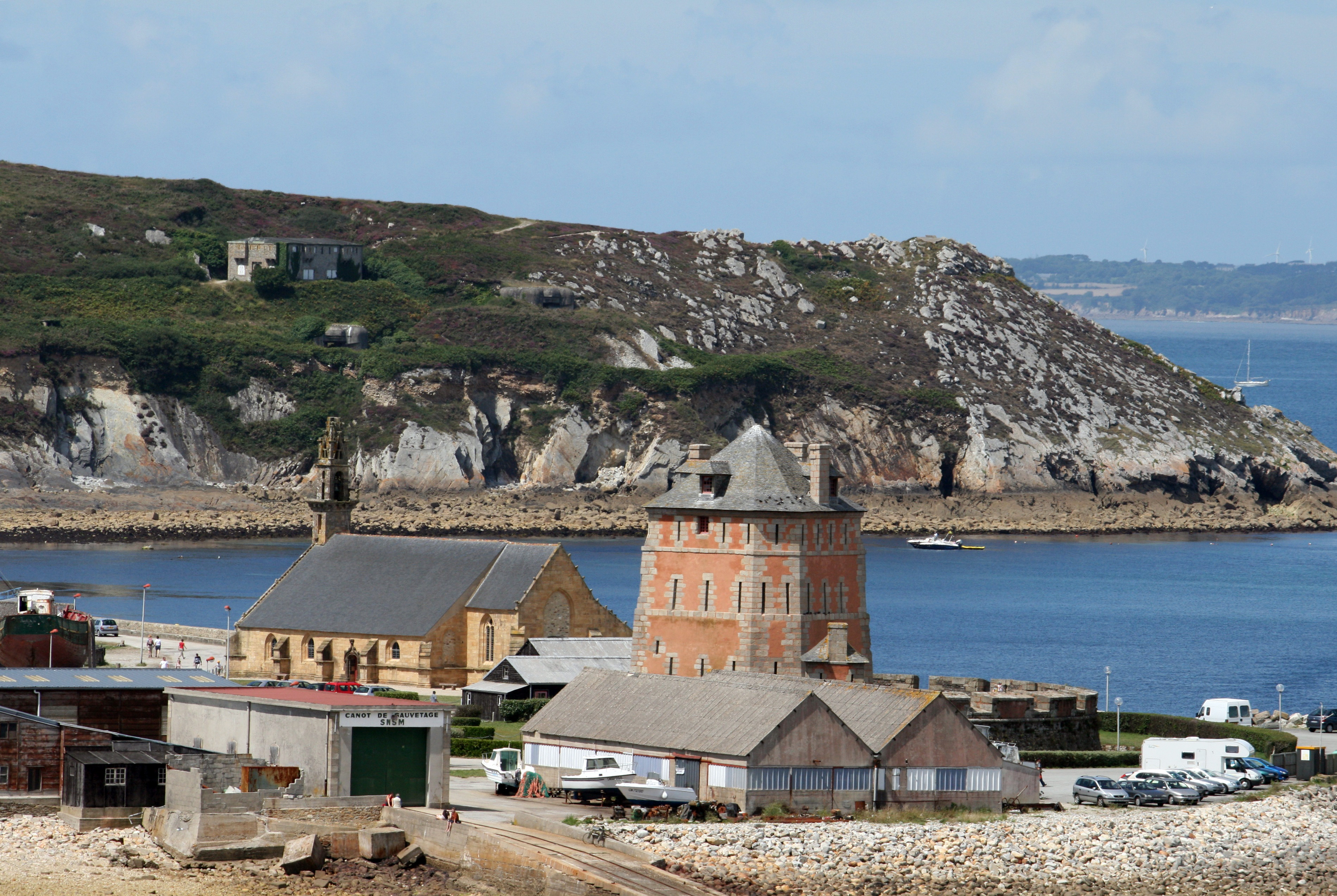 The Sillon - In the background the Pointe du Grand Gouin, Camaret-sur-Mer